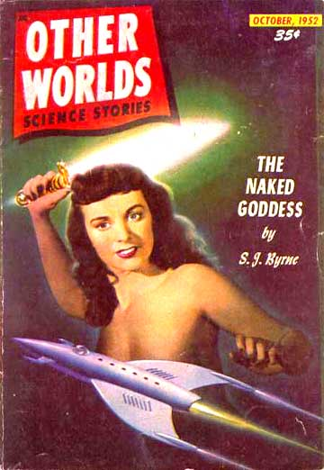 Cover of Other Worlds, October 1952